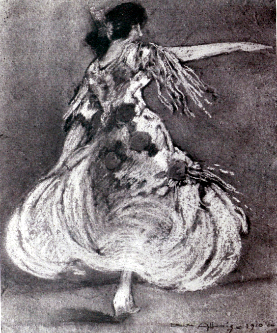 "La bailaora", painting by Laura Albéniz, from 1910, published in the magazine "Museum" (1916-1917).